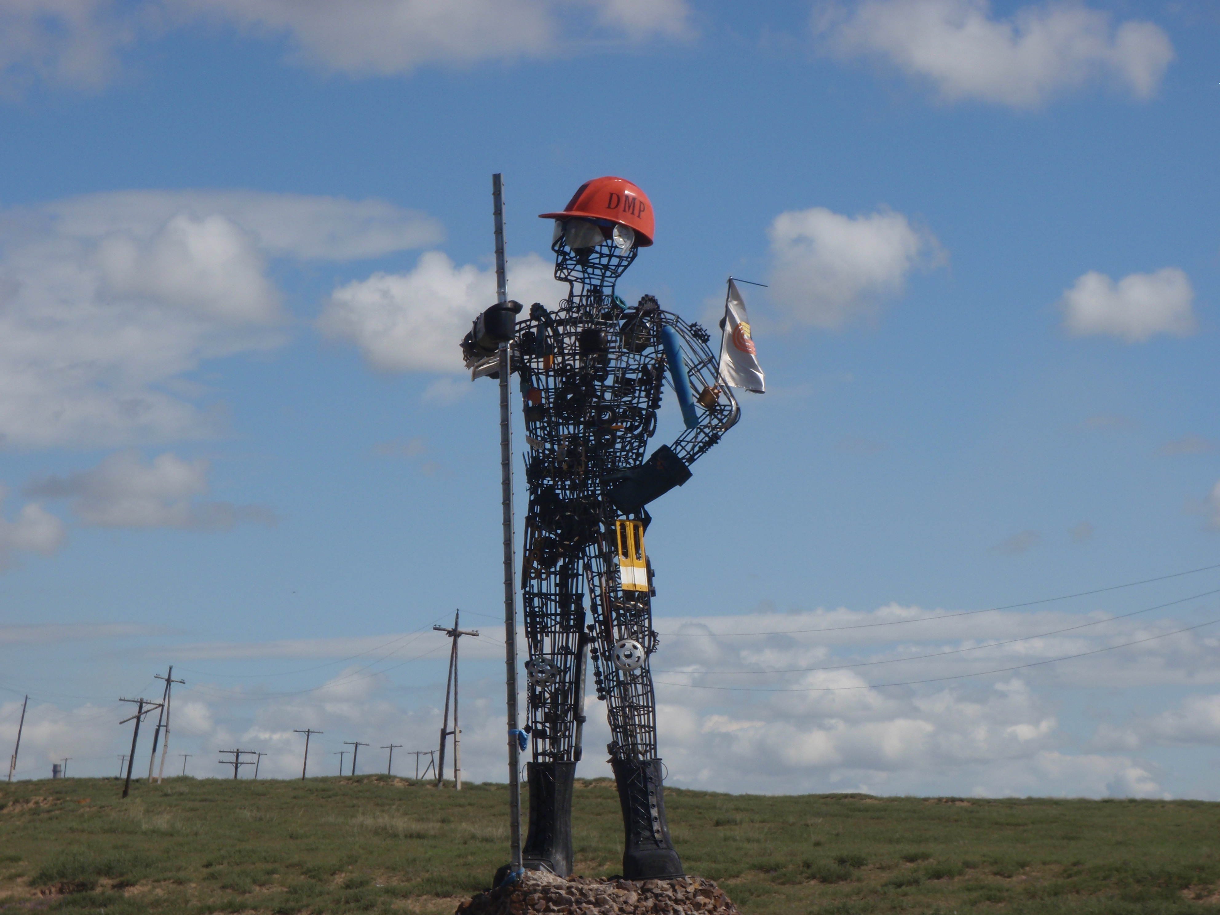 Creative figure at the road near Darkhan - Symbolization of a worker of the DMP Darkhan Metallurgical Plant